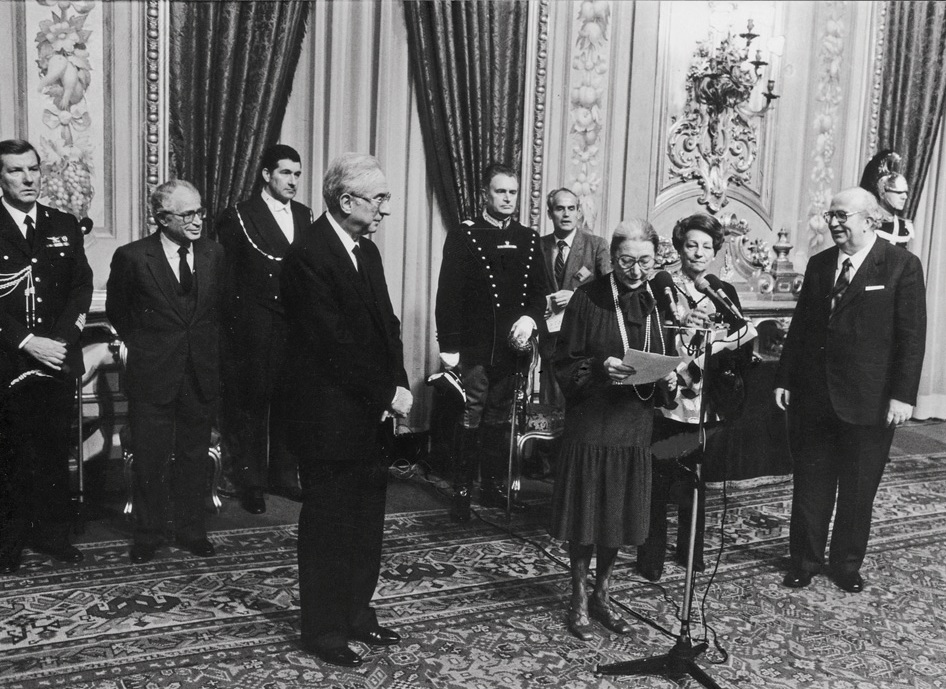 Italian publisher Mimma Mondadori with Italian President Francesco Cossiga and Senator Giovanni Spadolini.